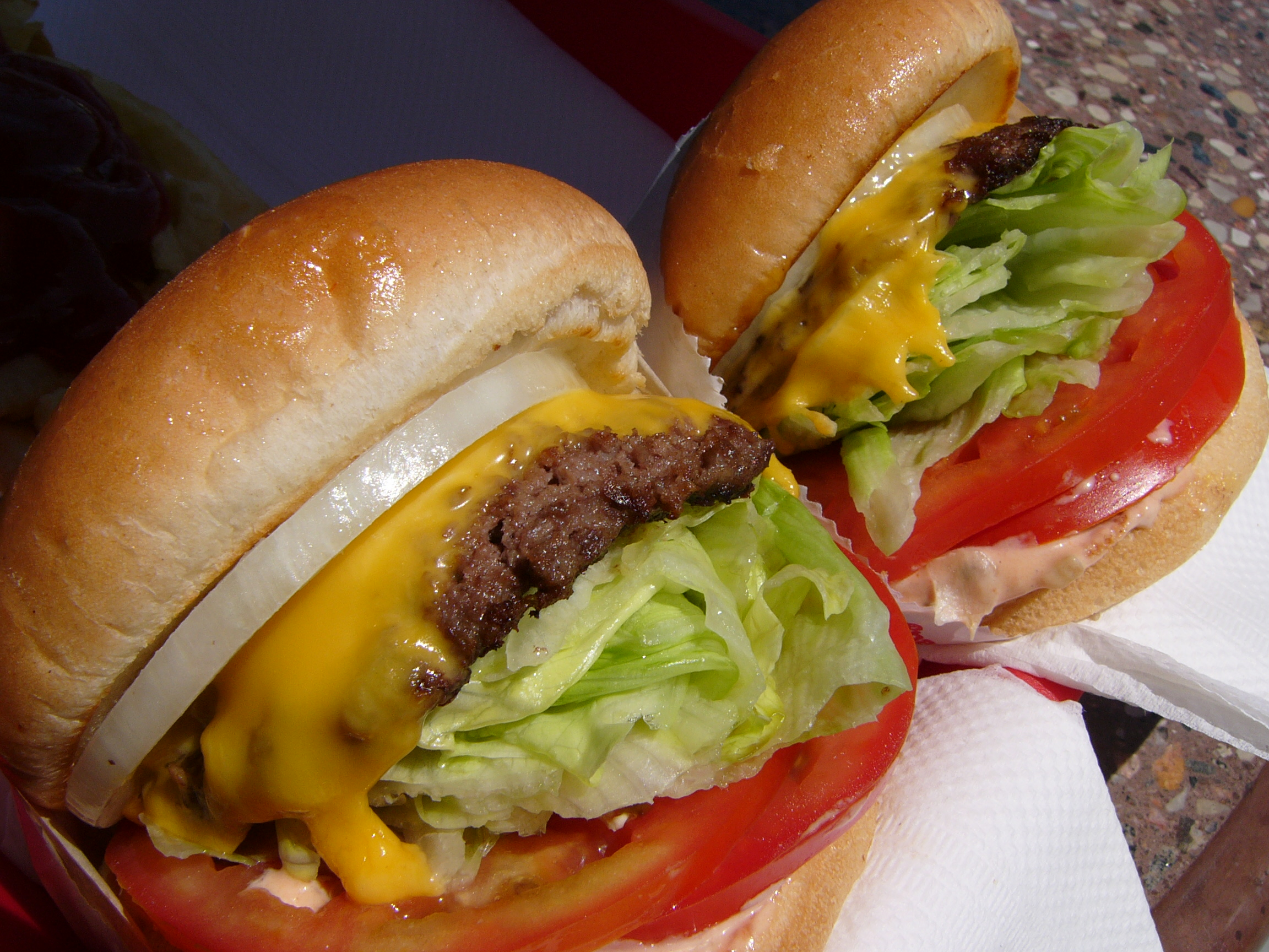 A pair of In-N-Out cheeseburgers.